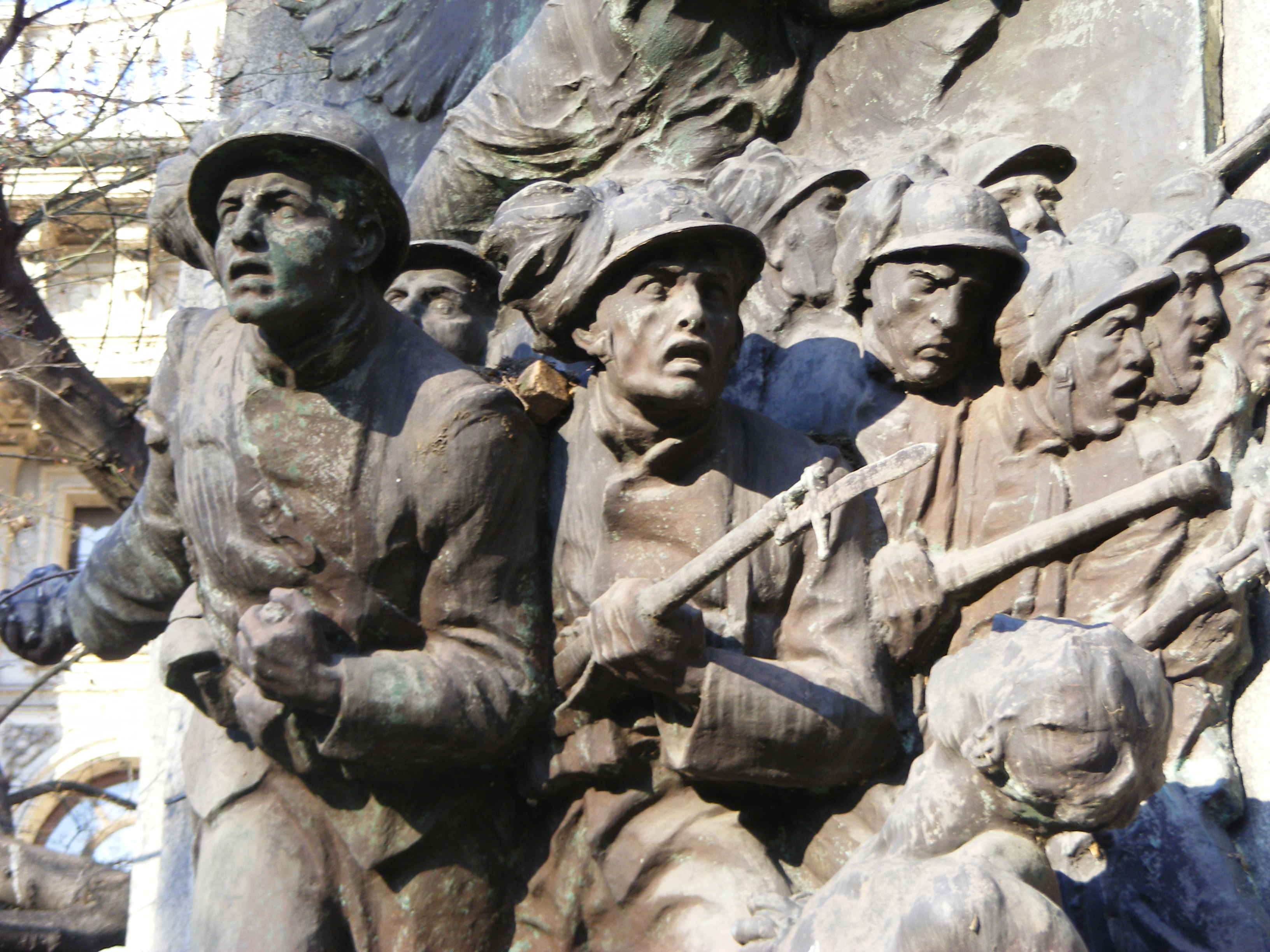 Monument for the centenary of Bersaglieri located in Torino, giardino Lamarmora (sculptor: Giorgio Ceragioli, 1923